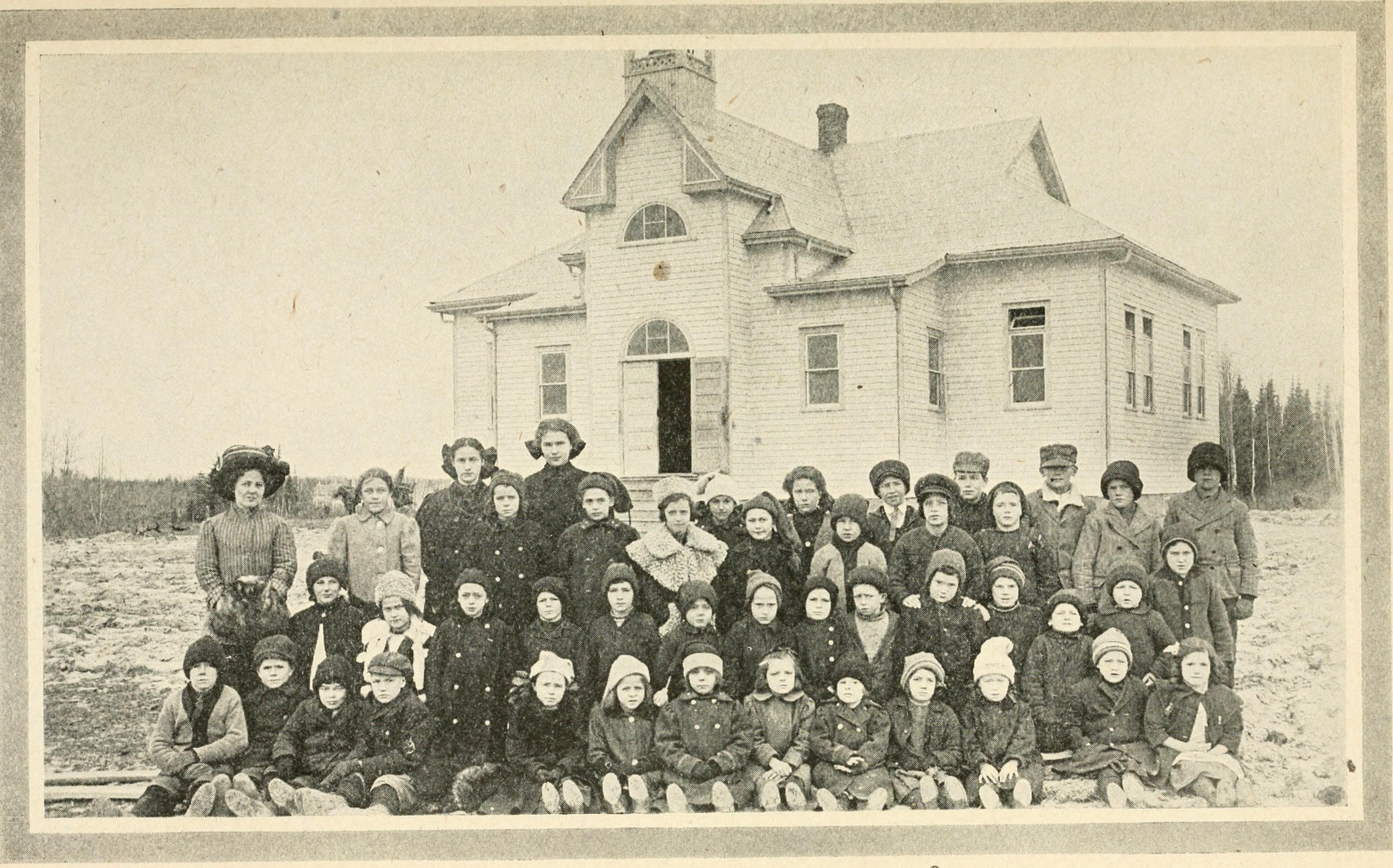 Title: Ontario Sessional Papers, 1918, No.47-49 Year: 1918 (1910s) Authors: ONTARIO. LEGISLATIVE ASSEMBLY Subjects: Publisher: Text Appearing Before Image: Ghaham. P. A. & Storekep.prr. 82 THE EEPORT OF THE TEMISKAMIXG AND No. 48 Purchasing and Stores Department. Statement of Purchases and Issues, Fiscal Years 1916-1917. Stock. 1916 1917 Purchases. Issues. Shop I 373,985 43 Soft Coal ! 427,717 .32 Hard Coal Oil and Waste Stationery Rail Ties Ice Nipissing Central Railway Locomotives—six new. 9,042 0019.347 3317,598 55 6,322 3018.402 35 3.894 15 317374,10,14,15,61,31,5, iS c.,216 53,629 07,624 13,685 14,867 78,093 59576 80941 01 Purchases. .$ c.373.467 06662.042 8417.369 4618,285 9219.052 9742,678 5329,587 665,469 18 Issues. $ c.289,977 43531,777 5014,585 6818,043 5818,673 7020,421 4923,615 633,875 22 10,177 35 8,935 61 25,171 30 14,875 45 886.486 78204,851 00 840,-569 66 1.193,124 92204,851 00 935,845 68 1,091,337 78 1,045,420 66 1,193,124 92 935,845 68 Total Issues....Total Purchases Pay roll, 1.045.420 661,091,337 78 2.136.758 44 17,374 71 935,845 681,193,124 92 2,128,970 60 20,203 05 1918 NORTHERJ^ ONTARIO RAILWAY COMMISSION. 83 Text Appearing After Image: FINANCIAL STATEMENTS. (SS 86 THE EEPOET OF THE TEMISKAMING AXD Xo. 48